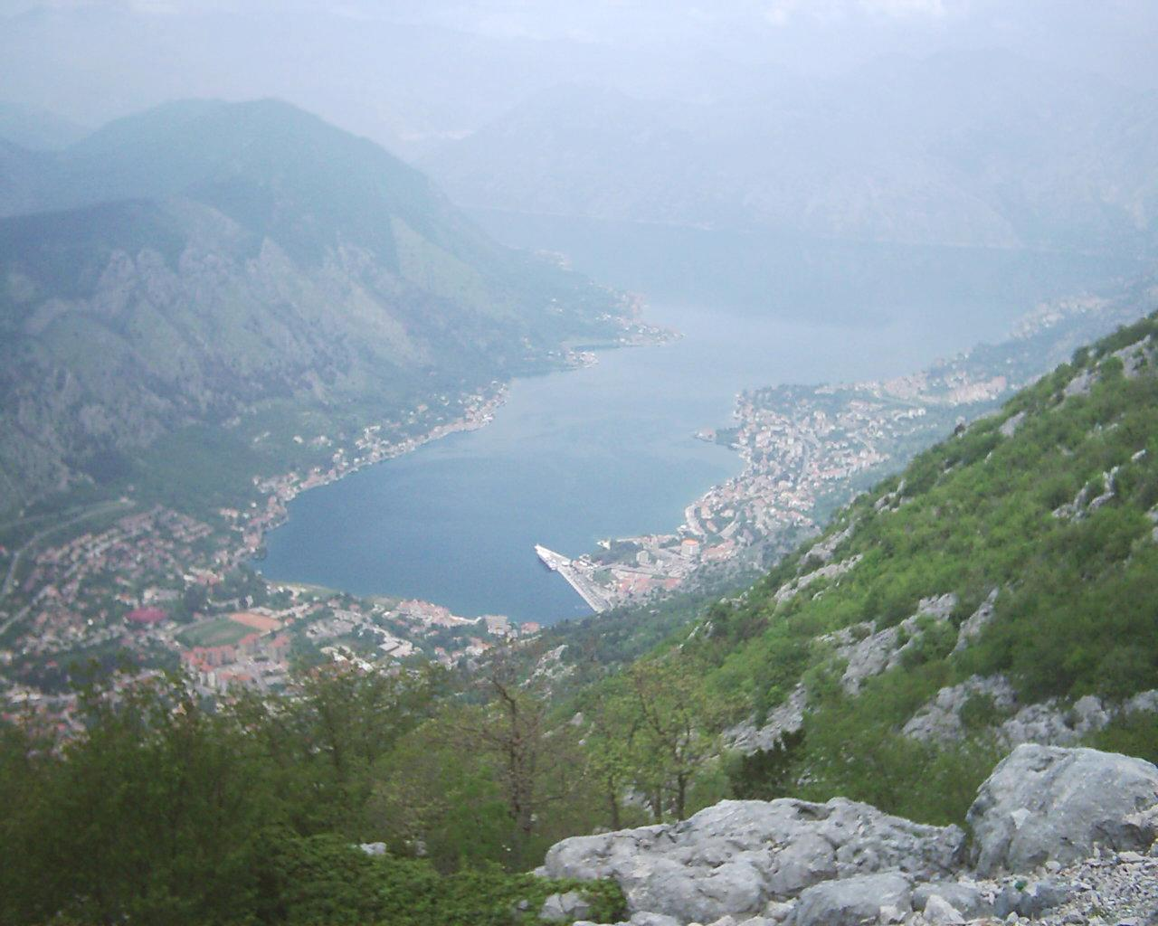 Bay of Kotor (the city is at the right, down)